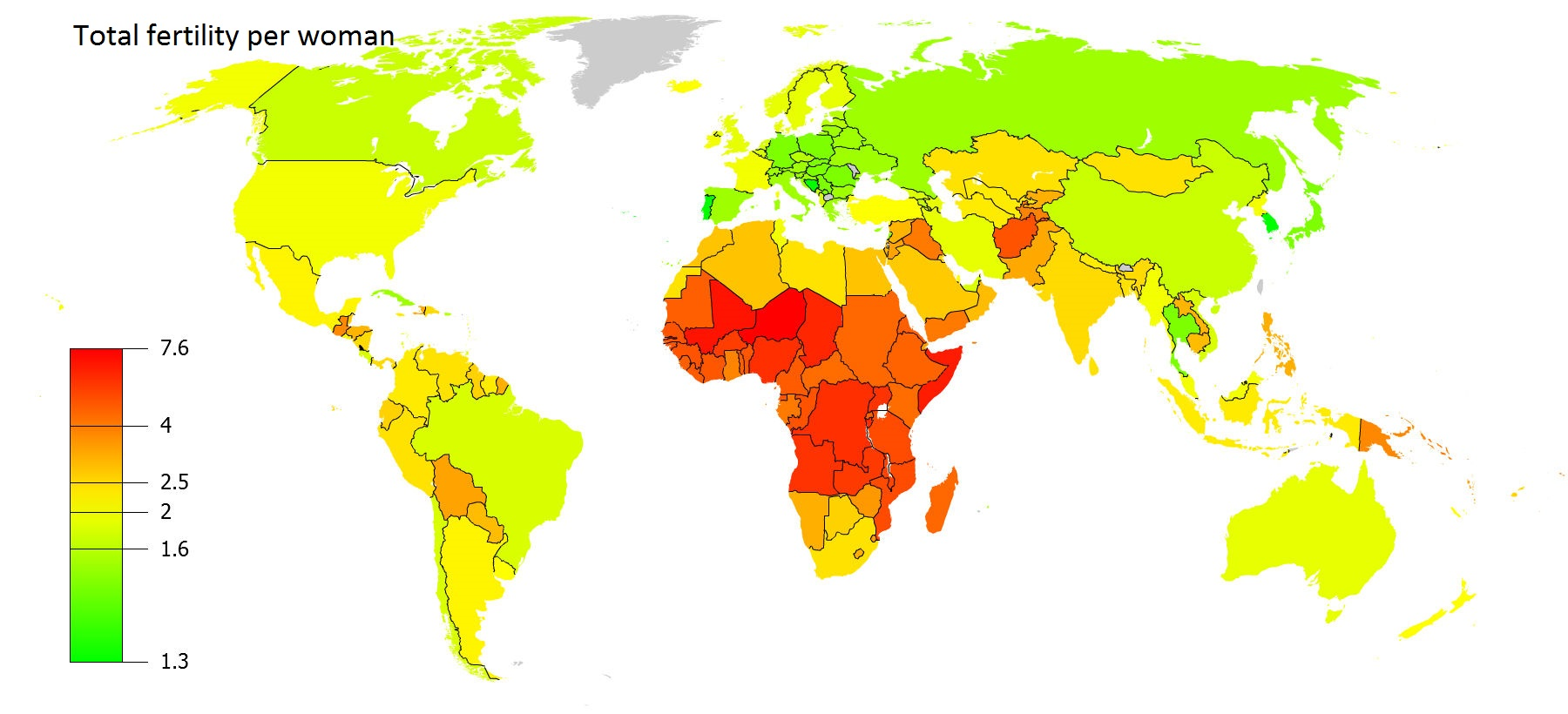 Total fertility per woman, world map 2013 For a stable population in a country or region, the fertility per woman there needs to be between 2.05 to 2.25 - depending on infant and pre-pubescent mortality rates. Data Source: United Nations, Department of Economic and Social Affairs, Population Division (2013). World Fertility Patterns 2013 (ST/ESA/SER.A/340). This map was created with GunnMapGunnMap was created by Arthur Gunn and is available, free, at and attribute by linking to